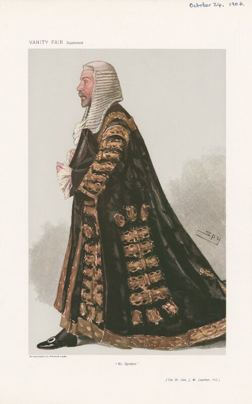 Caricature of James Lowther. Caption read "Mr Speaker".